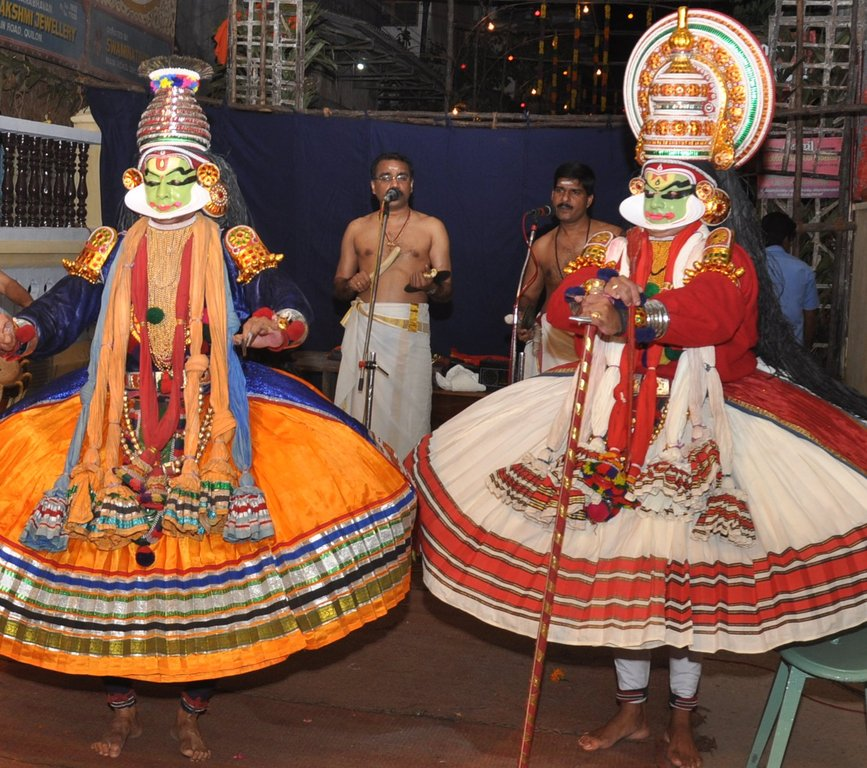 Kathakali Singer Pathiyur Sankarankutty